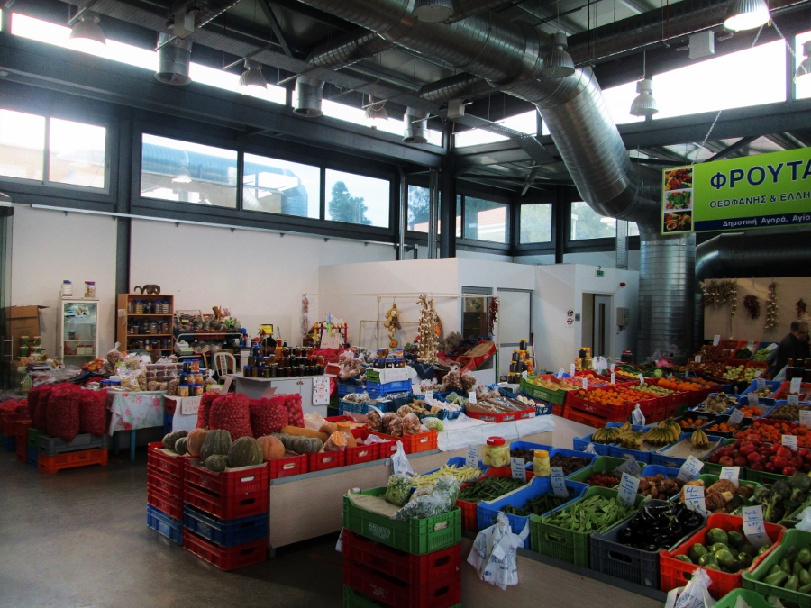 Ayios Antonios Municipal Market Digeni Akrita Avenue Nicosia Republic of Cyprus